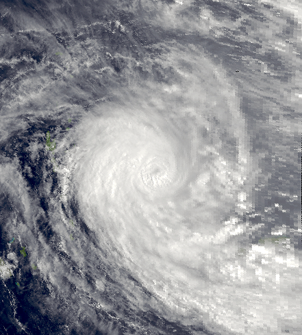 Severe Tropical Cyclone Kina on December 30, 1992